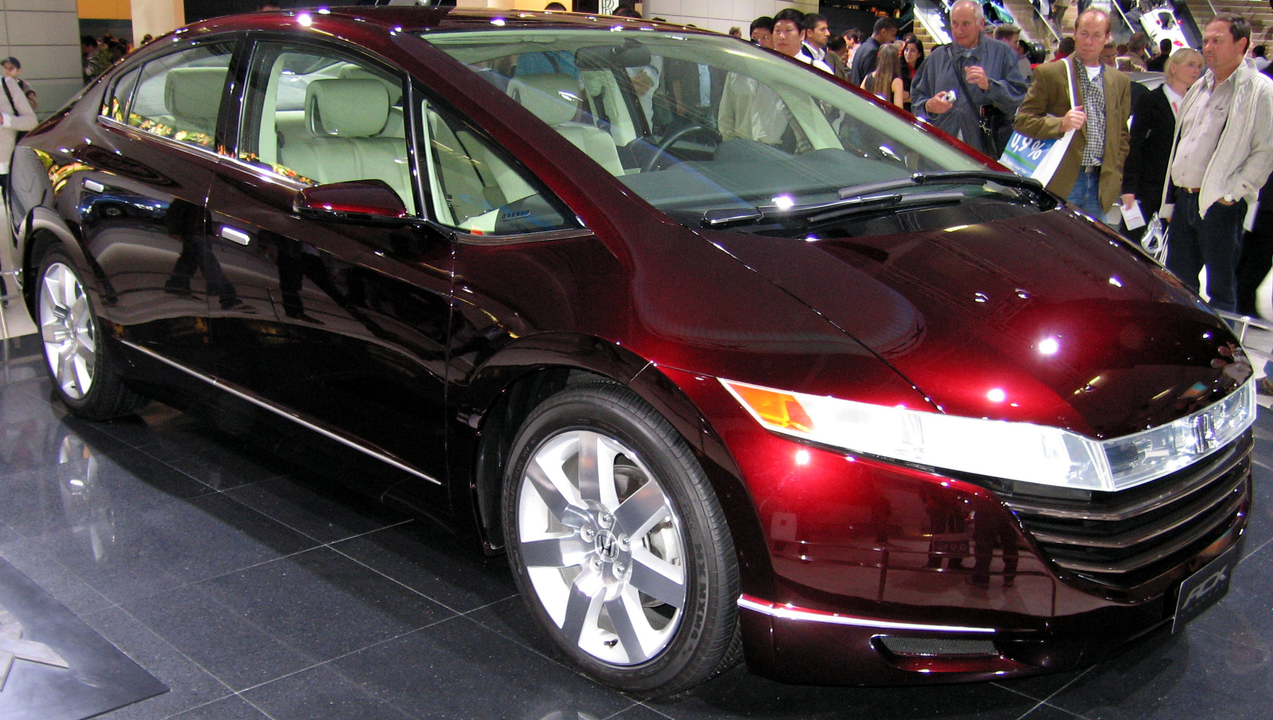 Honda FCX (2006) at the IAA 2007